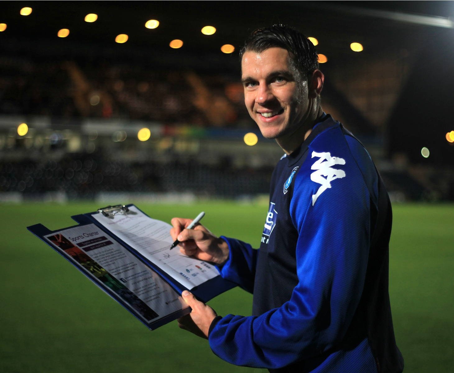 Wycombe Wanderers footballer Matt Bloomfield signing the Government 'Charter for Action'.[1]